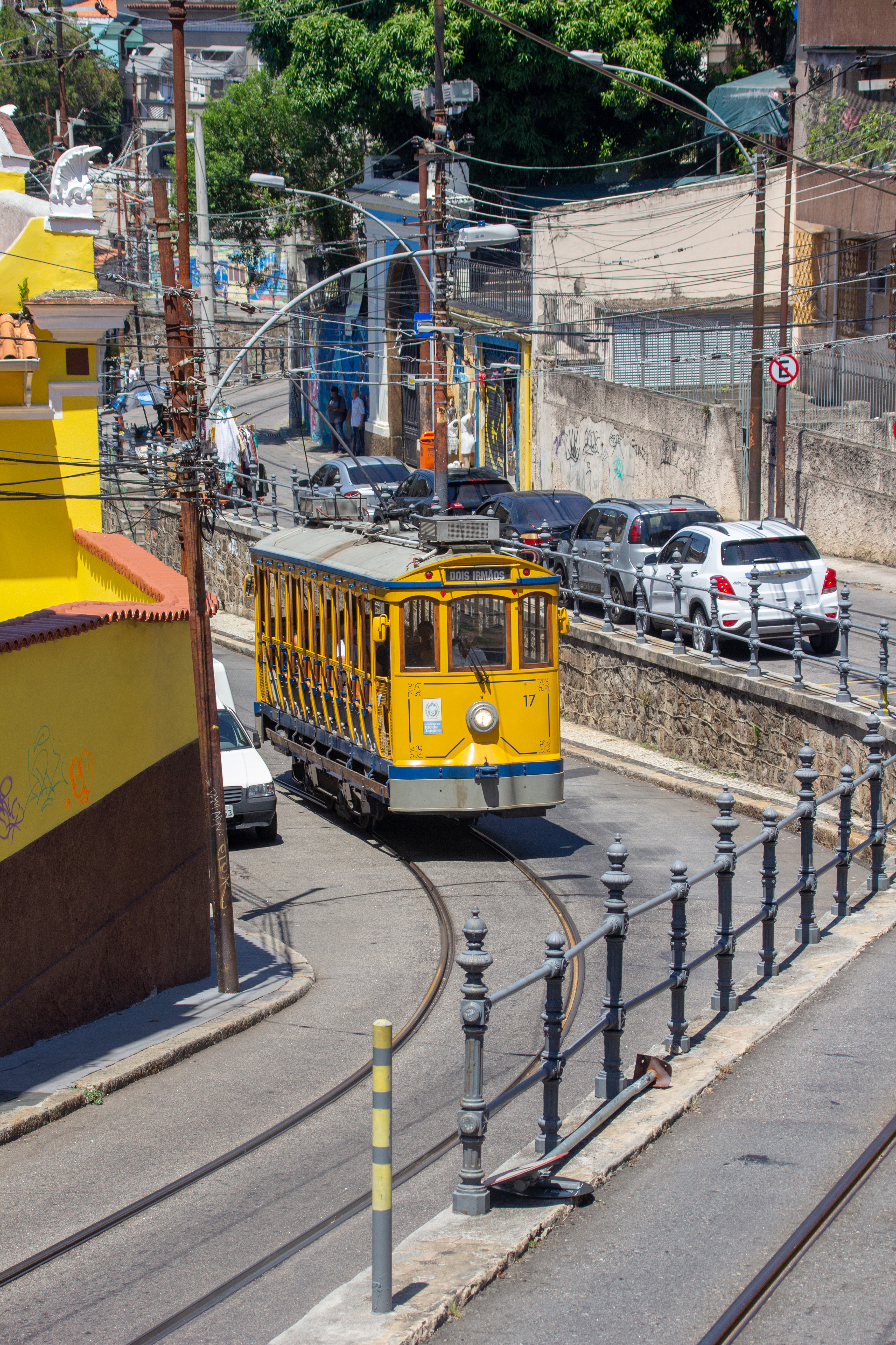 T'Trans-built replica-vintage tram 17 just west of Largo do Guimarães on Rio de Janeiro's Santa Teresa Tramway, en route to Dois Irmãos.